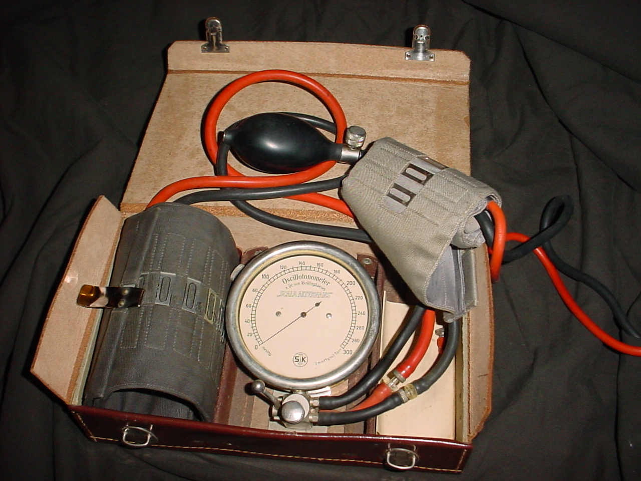 Von Recklinghausen Oscilomanometer